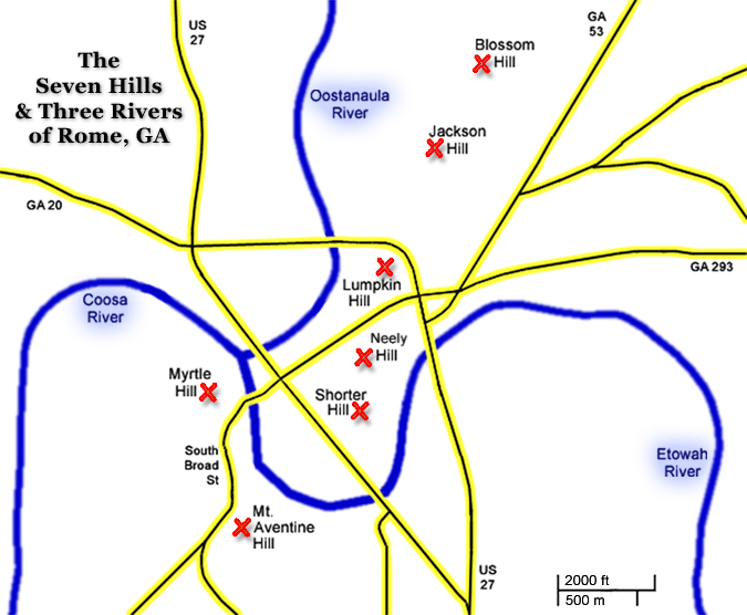 The Seven Hills and Three Rivers of Rome, Georgia. Three Rivers: Coosa, Etowah, and Oostanaula. Seven Hills: Blossom, Jackson, Lumpkin, Mount Aventine, Myrtle, Neely (also known as Tower Hill and Clock Tower Hill), and Shorter (now known as Old Shorter Hill).